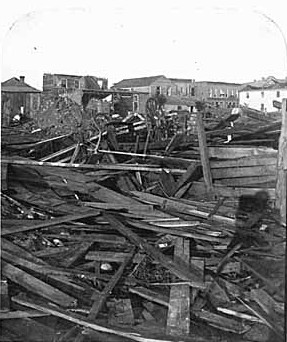 Damage to New Ulm, Minnesota after the 1881 tornado